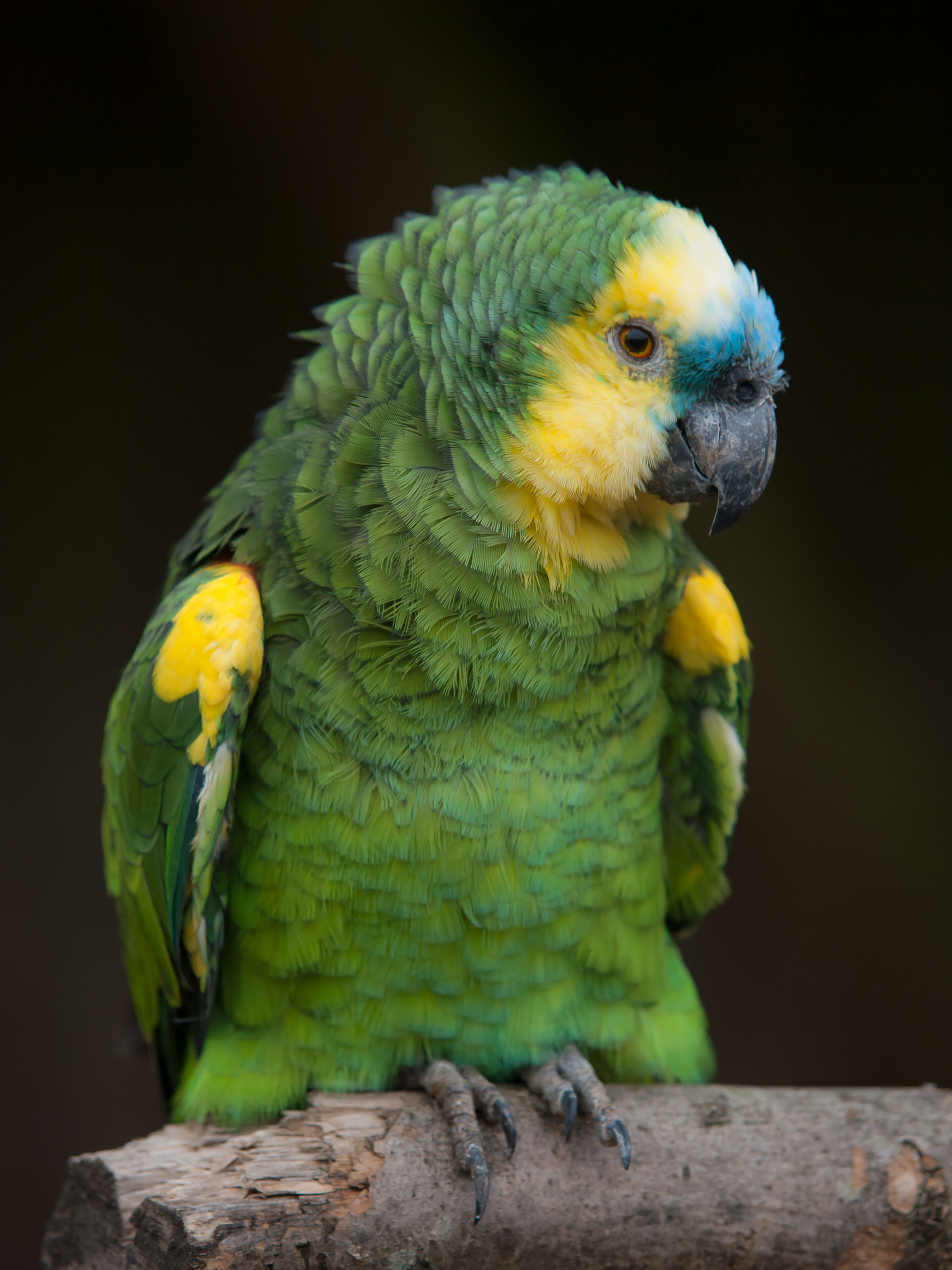 A Blue-fronted Amazon at Paradise Wildlife Park, Hertfordshire, England.